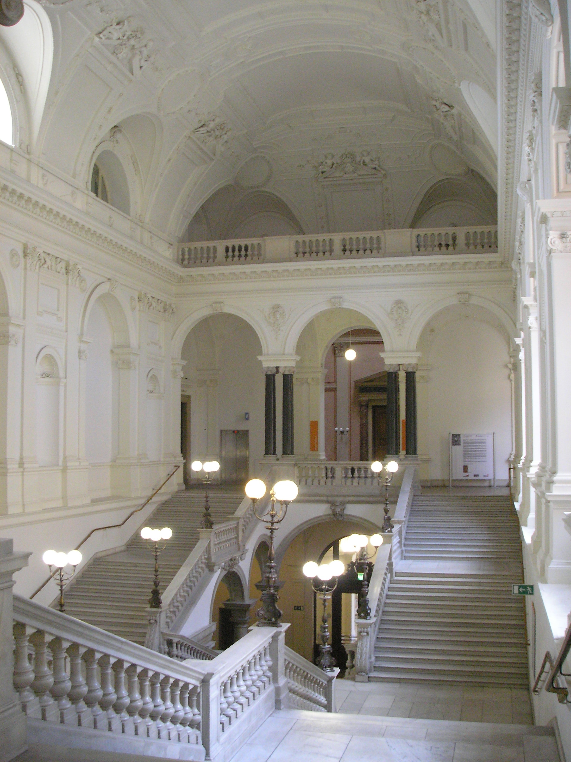 Description: View of one of the main stairs (Hauptstiege) in the University of Vienna. Source: self-made, I release it into the public domain.